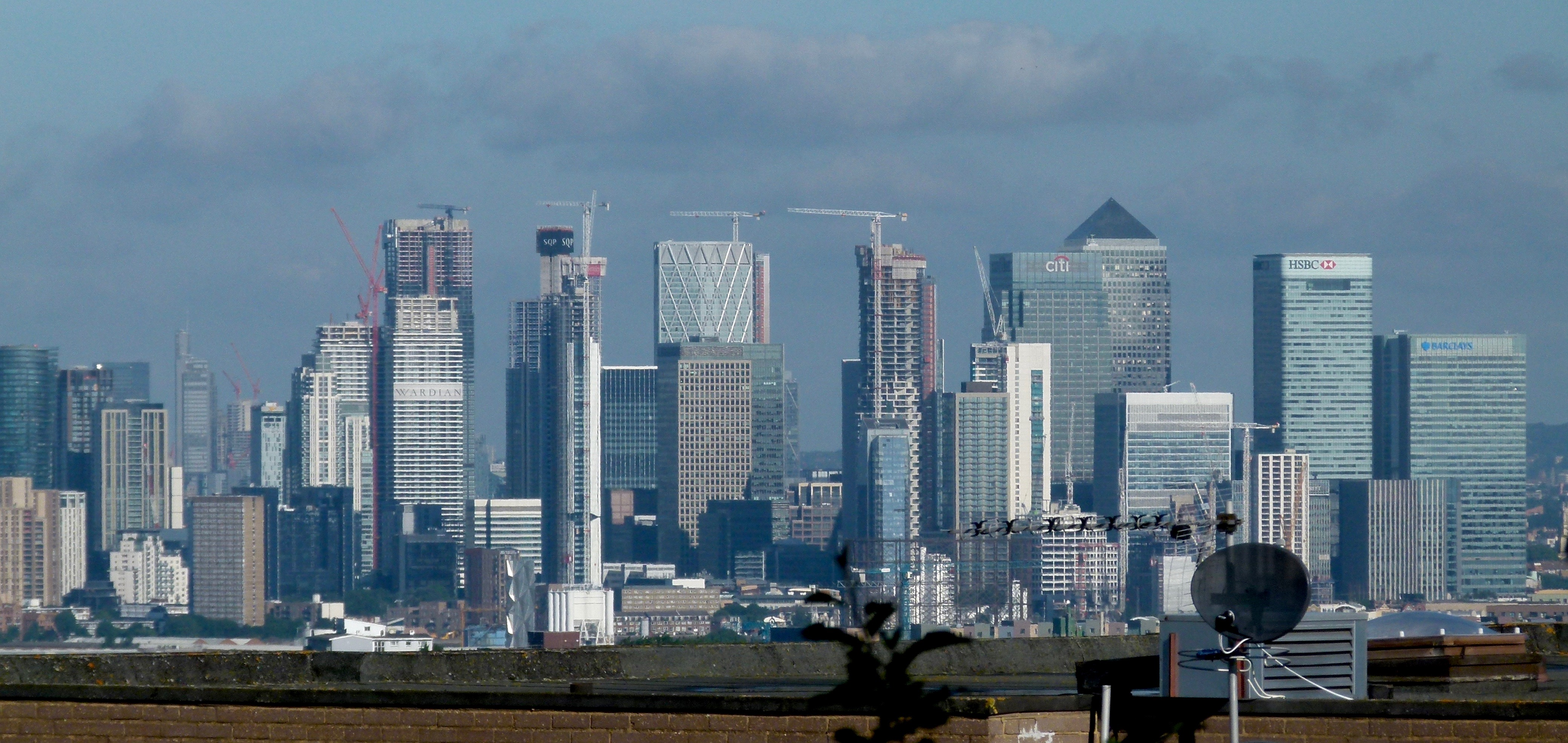 View from Shooters Hill of Canary Wharf, London, UK. In the foreground Conrad Shawcross' cladded Greenwich CHP tower and the gasometer at Greenwich Peninsula.